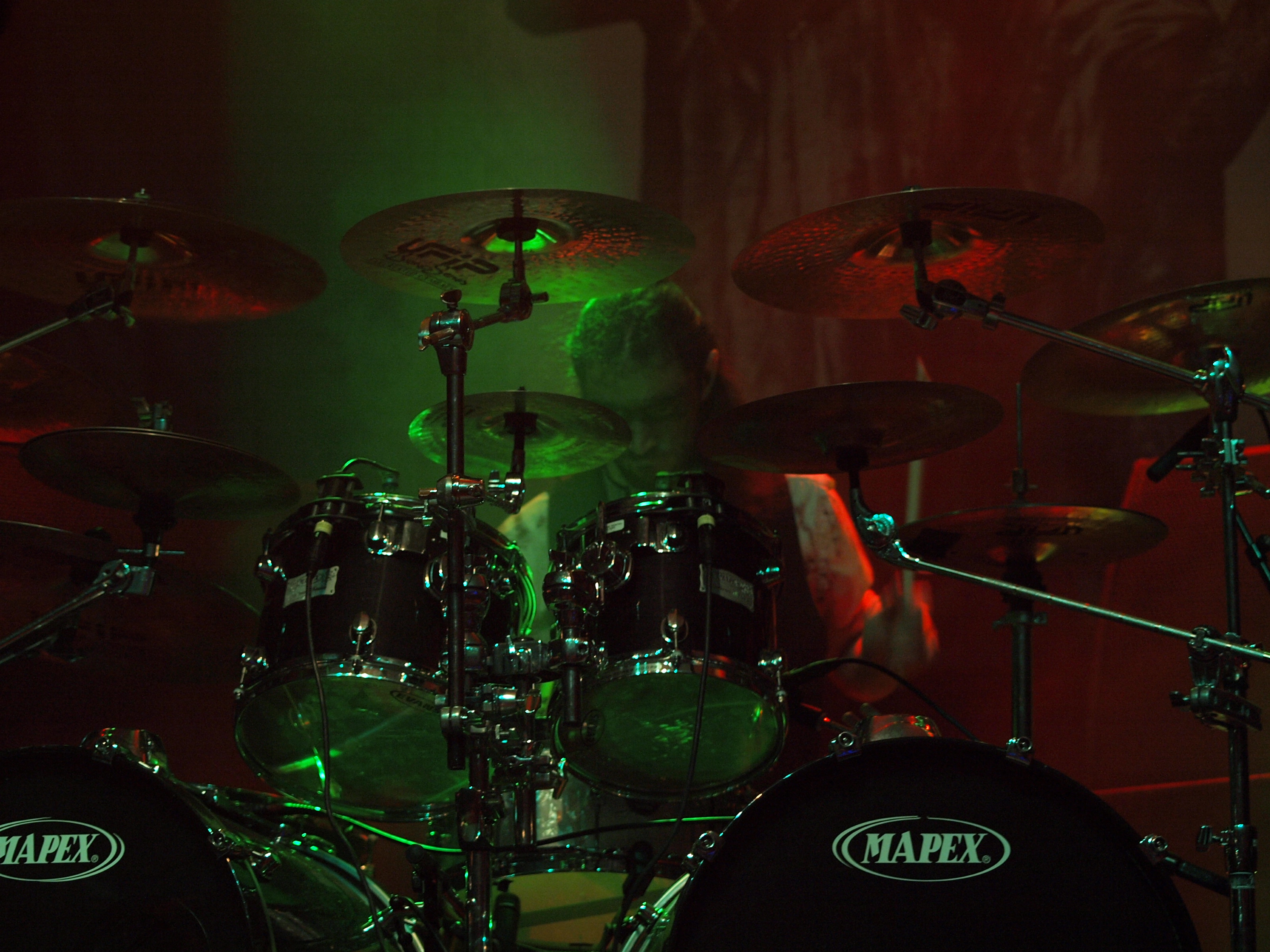 Fleshgod Apocalypse live at Finnish Metal Expo 2012 in Helsinki